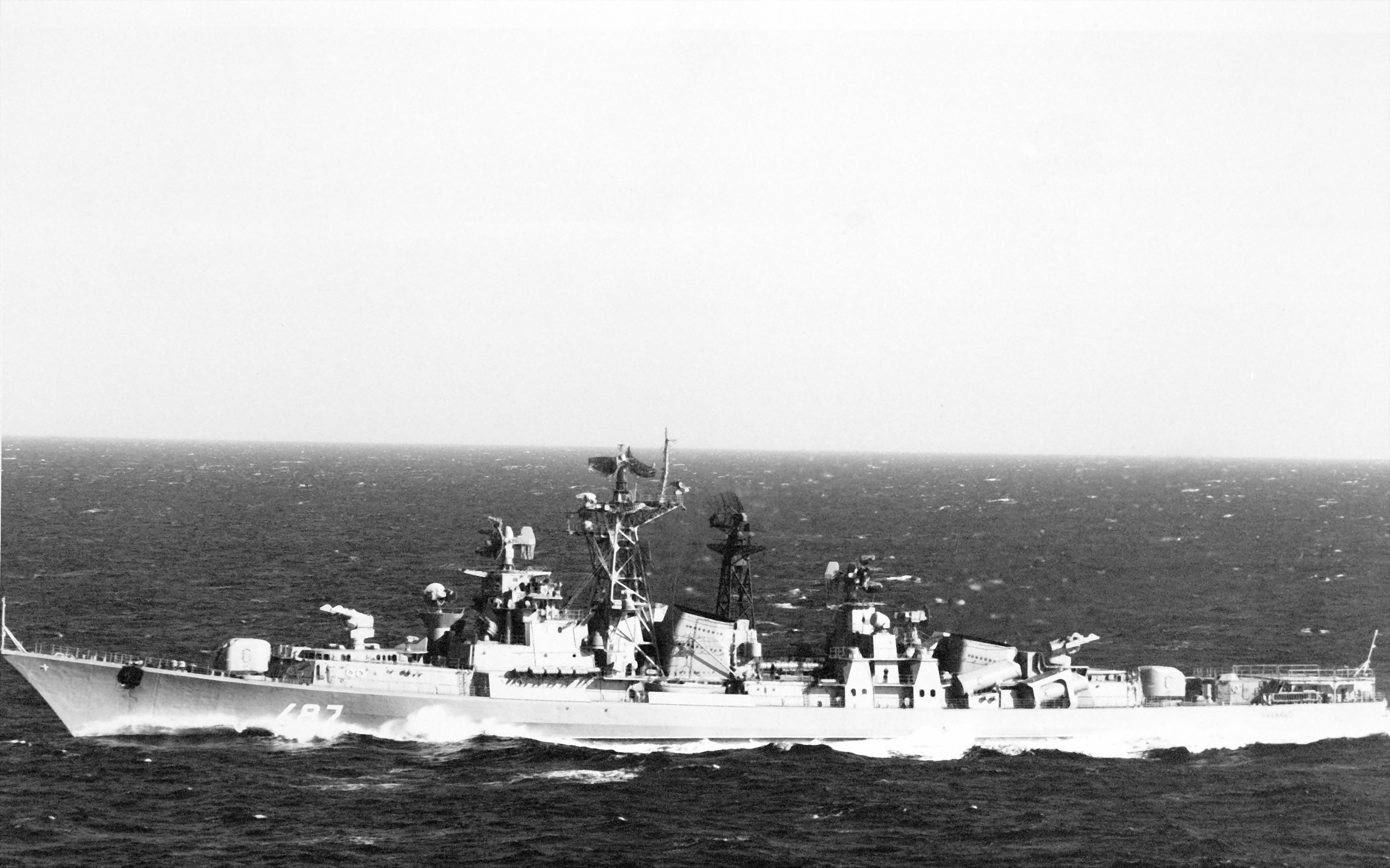 A port view of the Soviet project 61-MP large anti-submarine ship (NATO code - Modified Kashin class guided missile destroyer) Slavnny underway. (Released to Public)